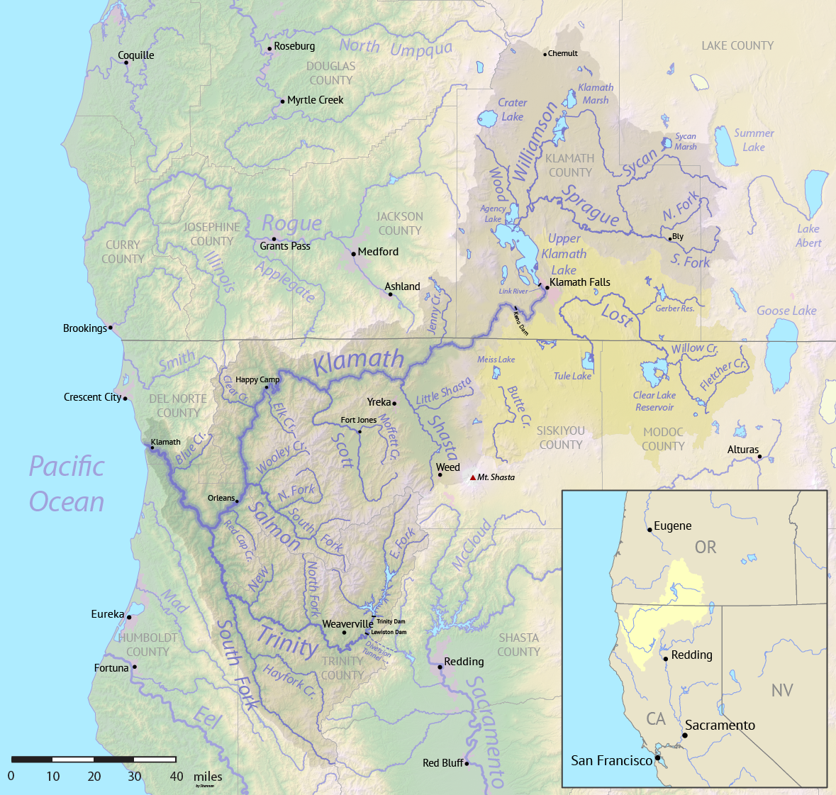 Map of the Klamath River basin in California and Oregon, United States. Klamath watershed shown in gray. The intermittently connected Lost River and Butte Creek watersheds are shown in yellow. Made using public domain USGS National Map data.